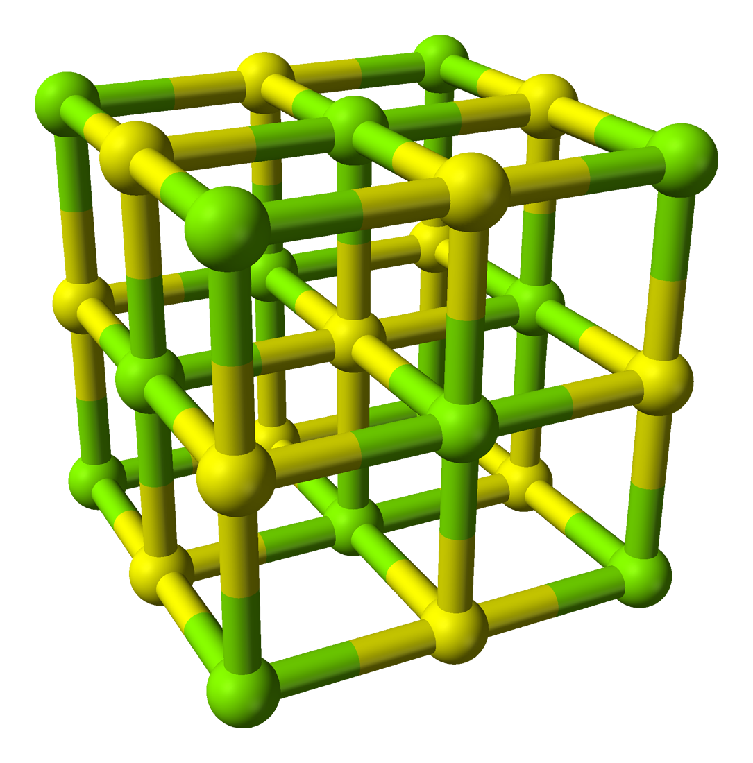 Ball-and-stick model of the unit cell of magnesium sulfide, MgS